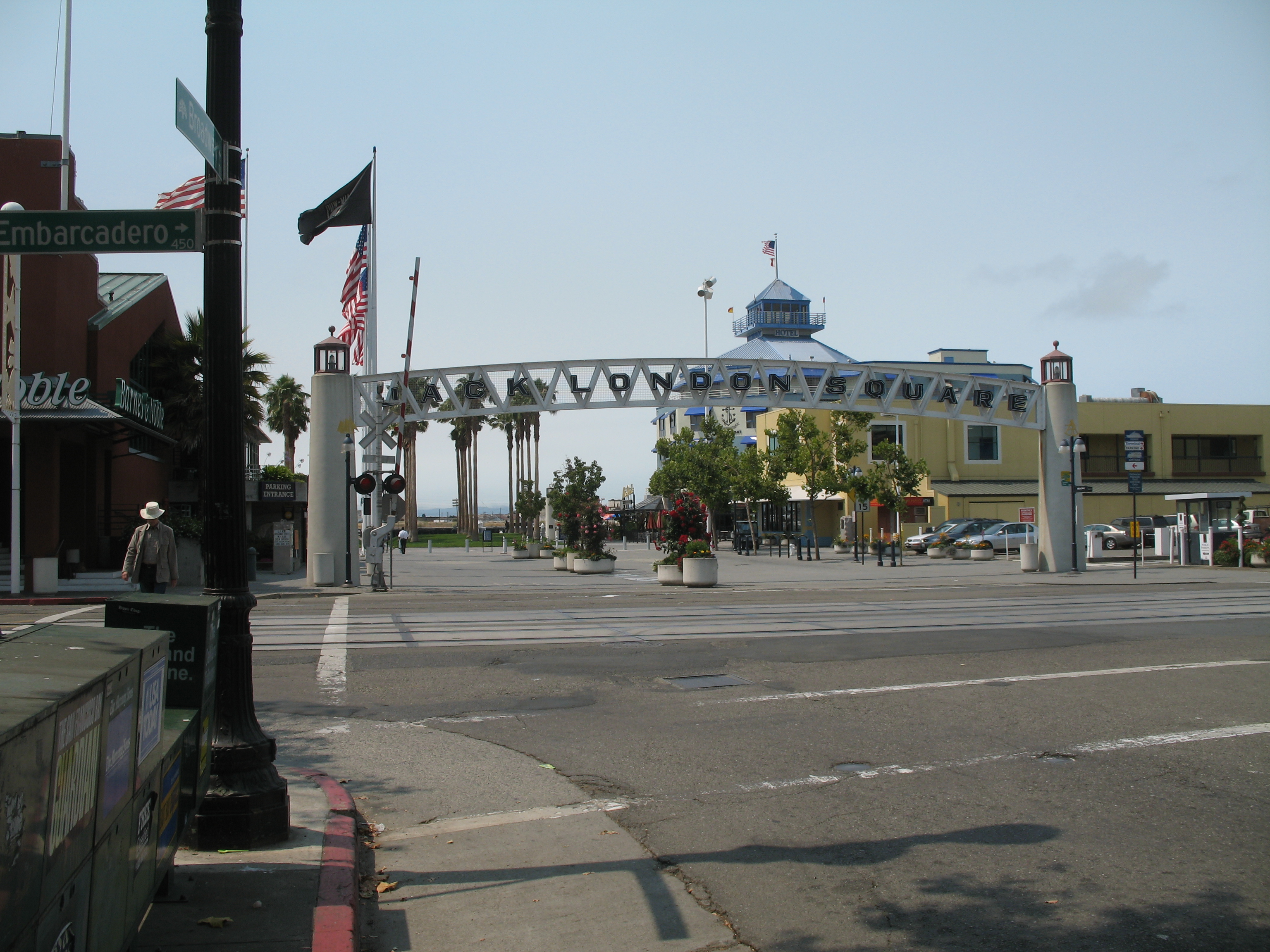 View of Jack London Square from Broadway, Oakland, California.